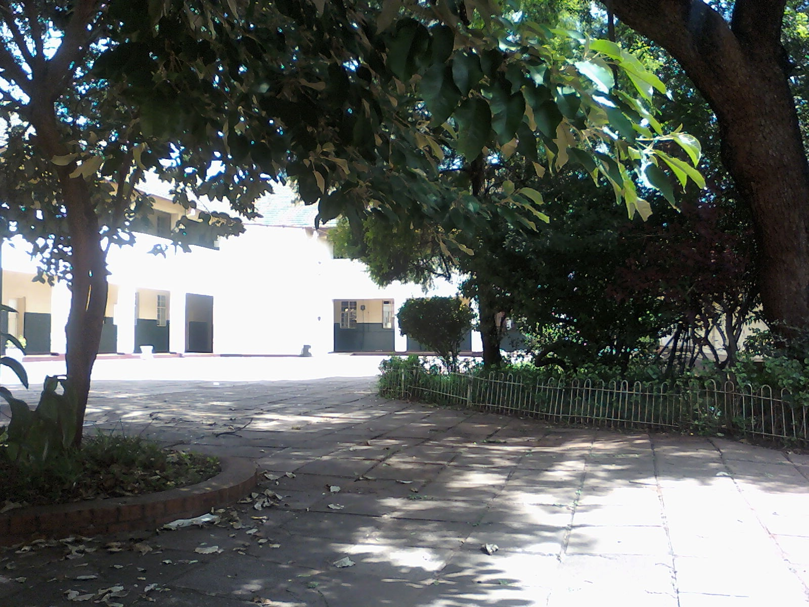 Corridor view of the Square from an angle